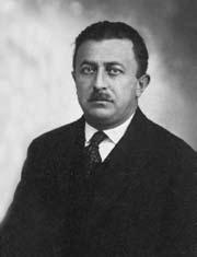 Mehmet Şükrü Bey (Kaya)